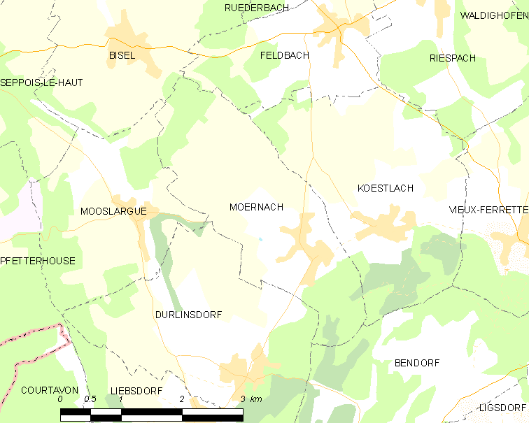 Map of French municipality